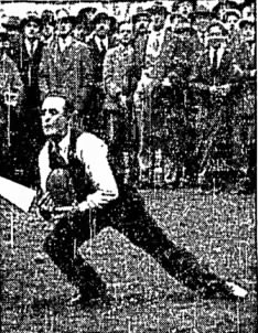 Hinkey Haines in Bryant Park catching Lynn Bomar's pass from the top of the American Radiator Building